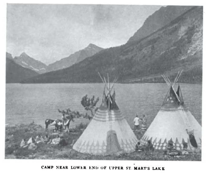 Illustrations of Blackfeet Indians in Glacier National Park from Schultz, James Willard (1916) Blackfeet Tales of Glacier National Park, Boston: Houghton, Mifflin & Co.